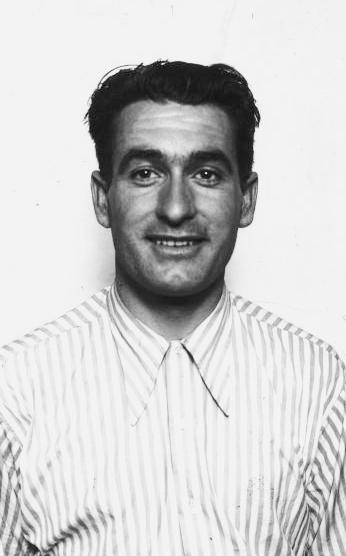 Adriano Vignoli's portrait